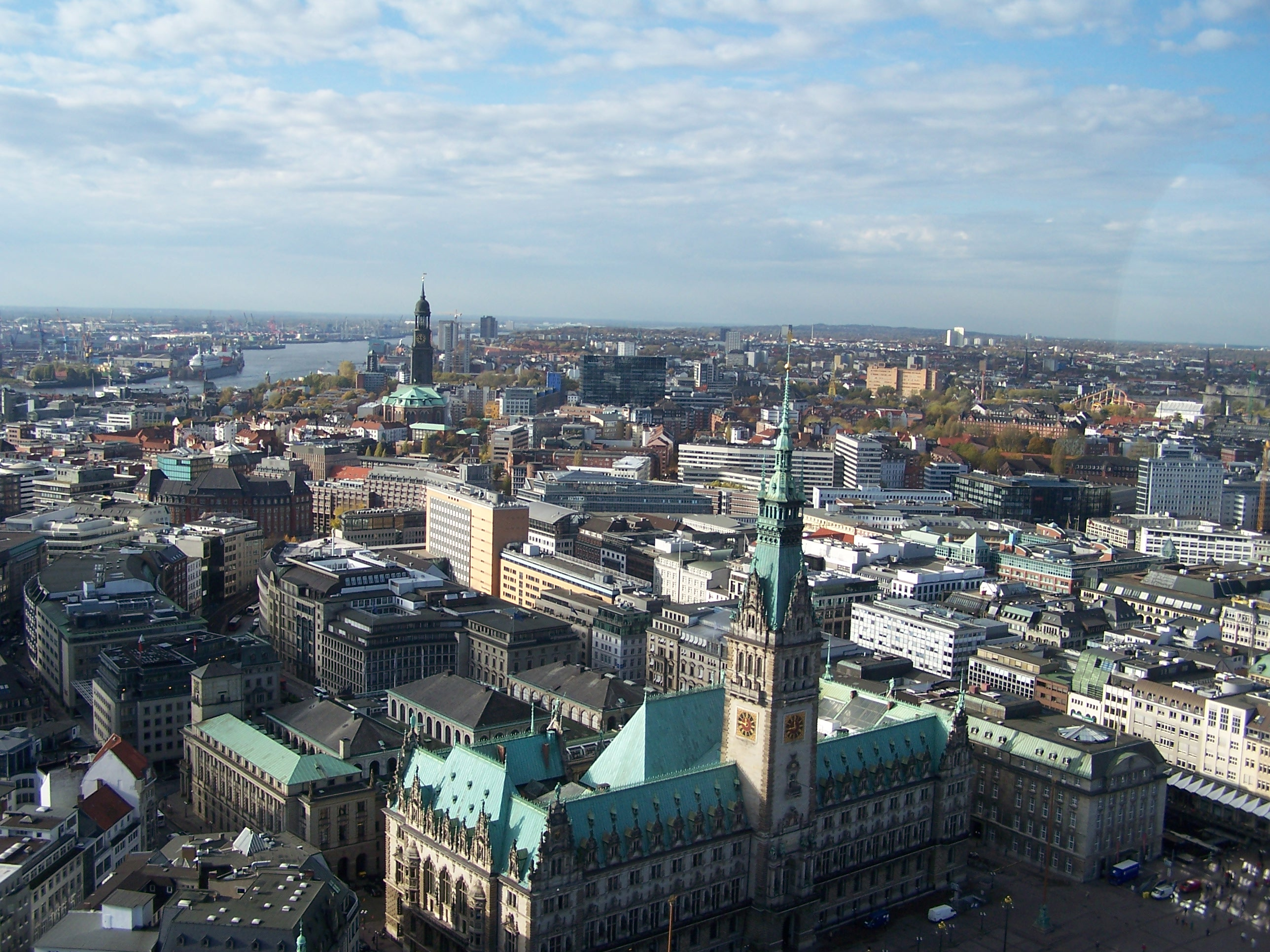 TownhallThis is a photograph of an architectural monument. St. MichaelisThis is a photograph of an architectural monument.